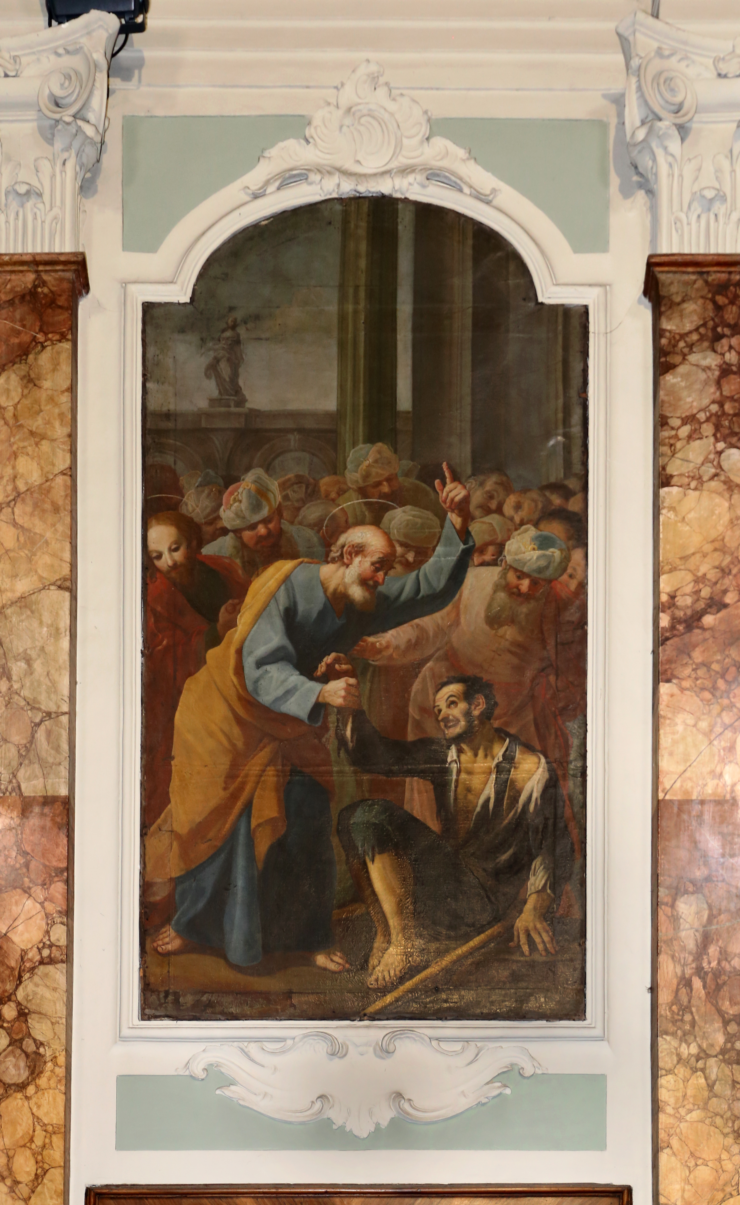 Santissimo Crocifisso (Borgo a Buggiano)